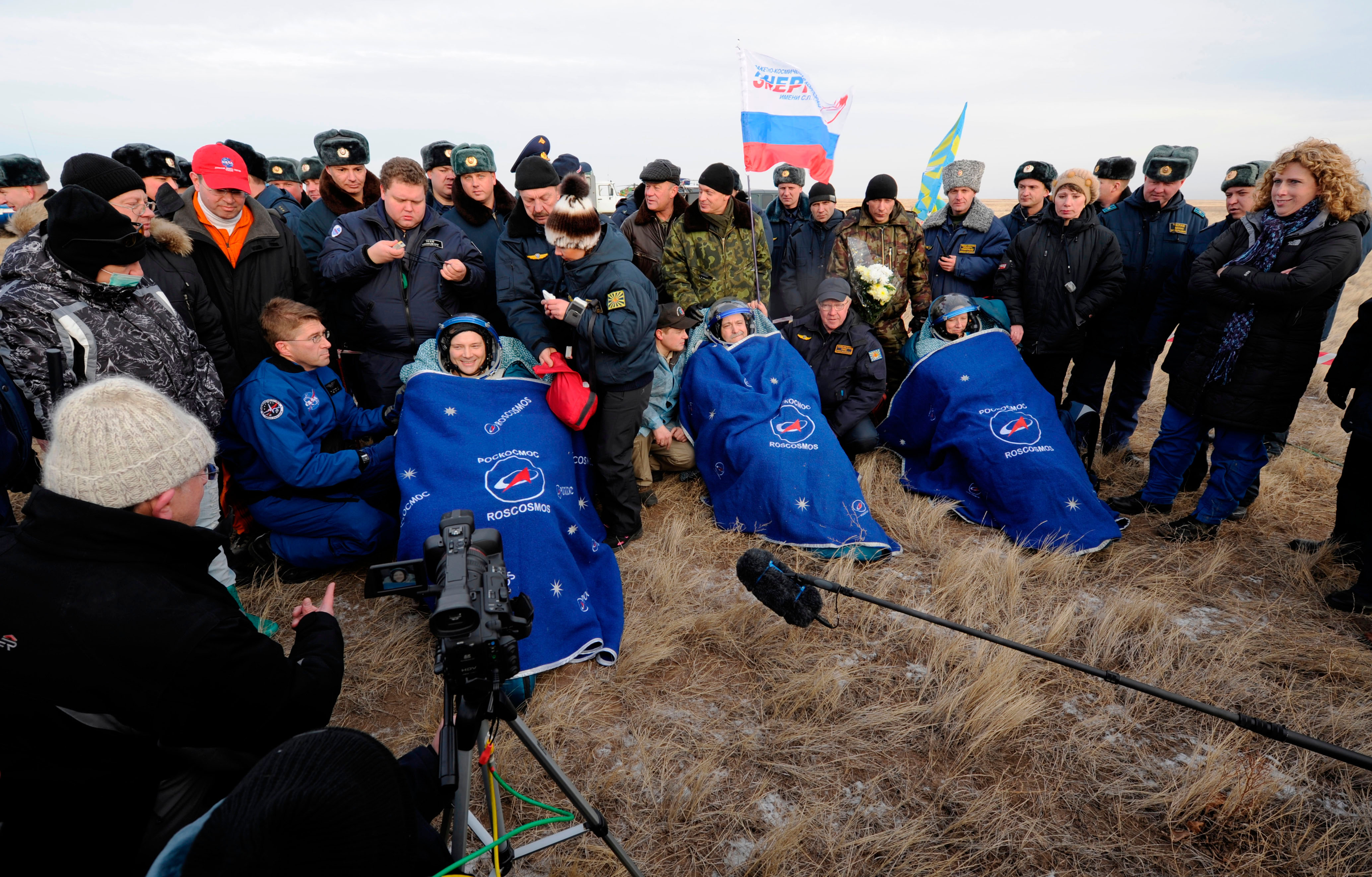 Soyuz TMA-19 crewmembers -- NASA astronaut Doug Wheelock, (second left in blue), Expedition 25 commander, along with Russian cosmonaut Fyodor Yurchikhin, Soyuz commander, and NASA astronaut Shannon Walker, flight engineer -- are seen after being removed from the Soyuz TMA-19 capsule near the town of Arkalyk, Kazakhstan Nov. 25, 2010 (USA time or Nov. 26 in local Kazakhstan time). The three are returning from over five months onboard the International Space Station where they served as members of the Expedition 24 and 25 crews.